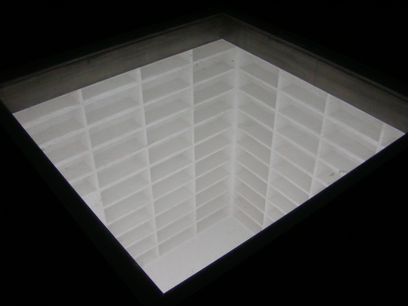 Book burning memorial on Bebelplatz at night in Berlin, Germany.